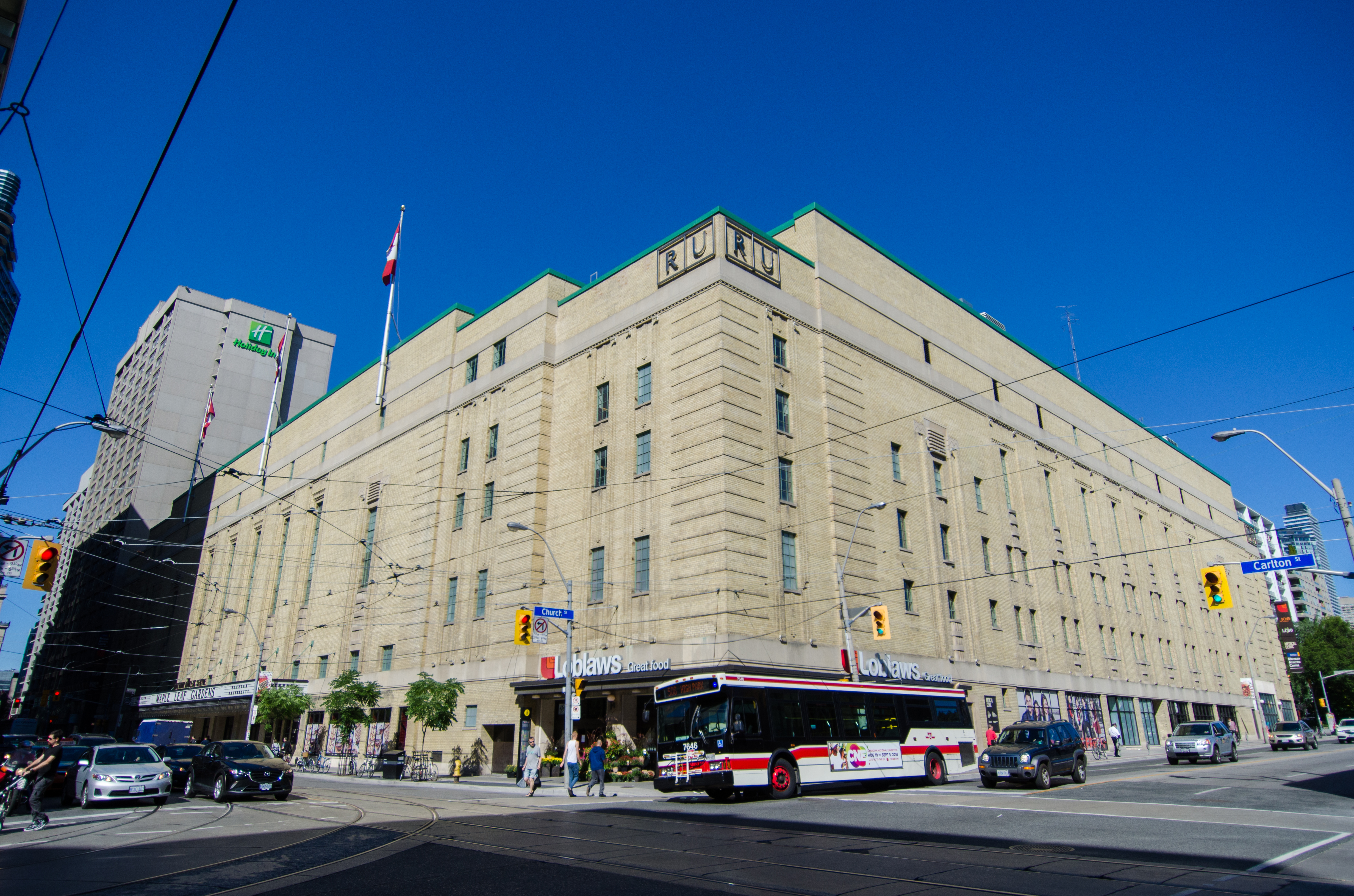 Maple Leaf Gardens at the corner of Church and Carlton.